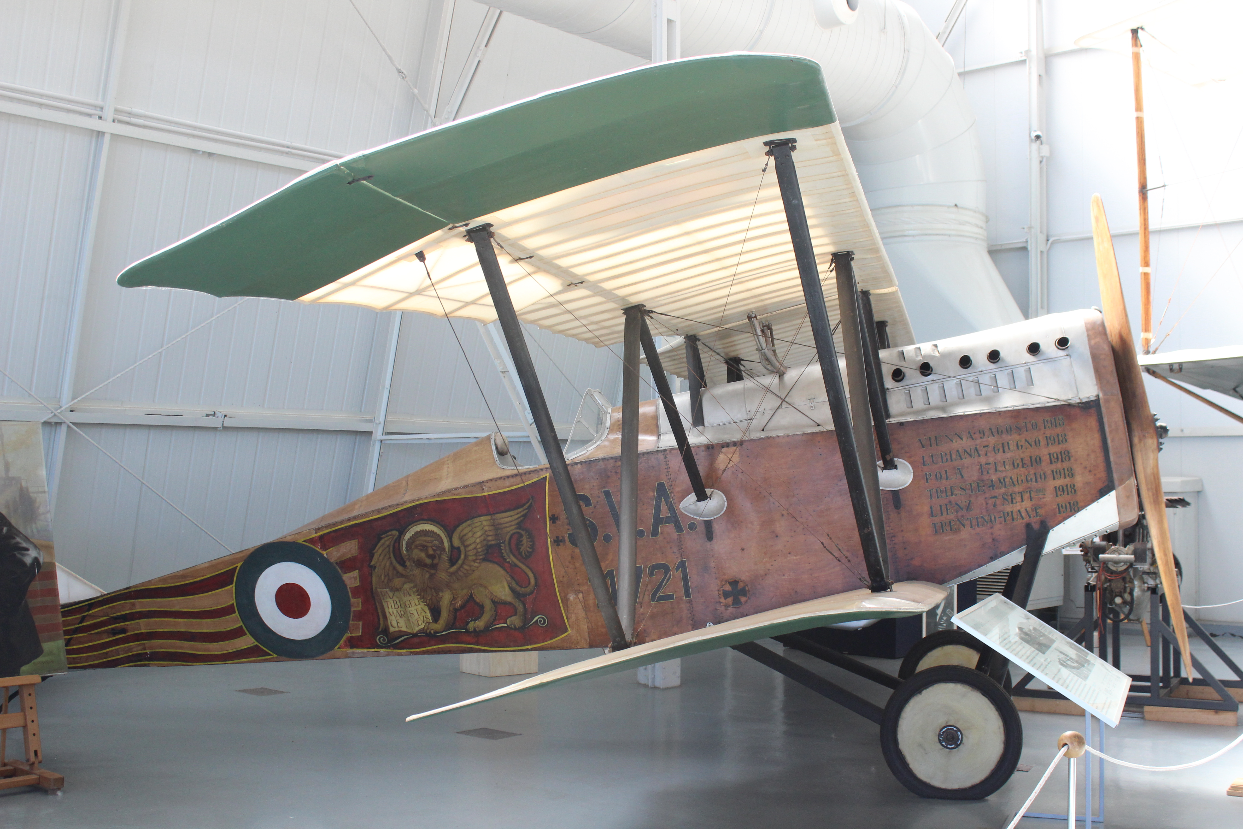 The Ansaldo SVA was a family of Italian reconnaissance biplane aircraft of World War I and the decade after.